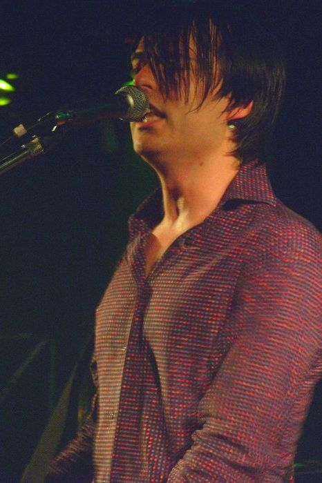 Roe_Deer in Olomouc (Czech republic)